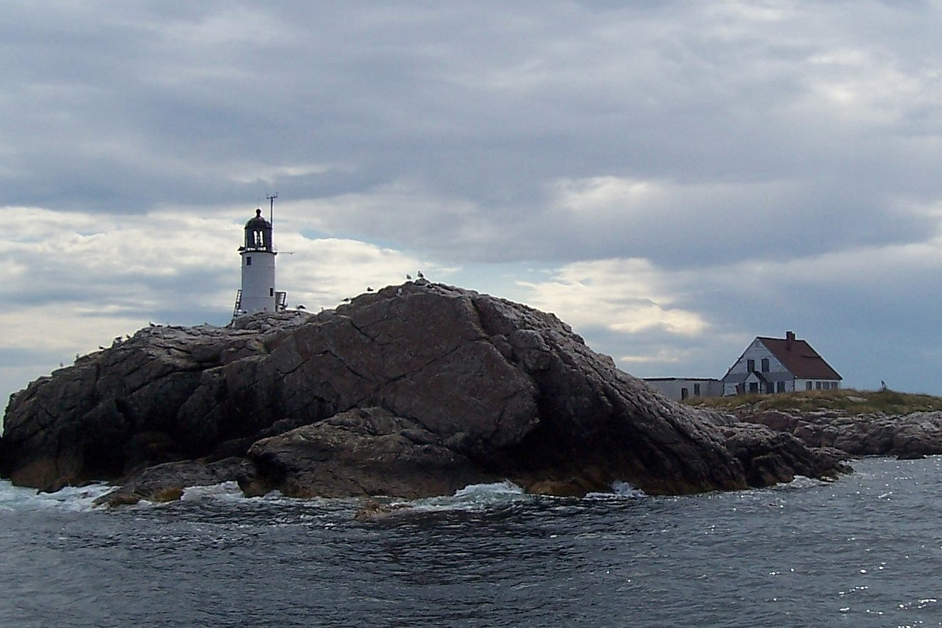 Several lighthouses have been on this island over the years. It is now unmanned, but functioning. Storms frequently swept over White Island. One particularly severe gale struck in 1839 when Celia was four years old, washing away henhouses and forcing her father to bring the family's cow into the kitchen. During the storm the brig Pocahontas was wrecked on a nearby sandbar and all aboard perished. The memory of this incident inspired Celia Thaxter's poem, "The Wreck of the Pocahontas," which read, in part: I lit the lamps in the lighthouse tower, For the sun dropped down and the day was dead. They shone like a glorious clustered flower, Ten golden and five red. Like all the demons loosed at last, Whistling and shrieking, wild and wide, The mad wind raged, while strong and fast Rolled in the rising tide. The thick storm seemed to break apart To show us, staggering to her grave, The fated brig. We had no heart To look, for naught could save.